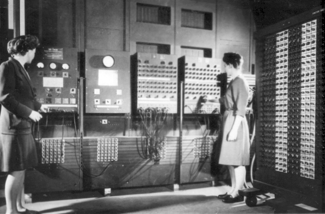 Two women operating the ENIAC's main control panel while the machine was still located at the Moore School. "U.S. Army Photo" from the archives of the ARL Technical Library. Left: Betty Jennings (Mrs. Bartik) Right: Frances Bilas (Mrs. Spence) setting up the ENIAC. Betty has her left hand moving some dials on a panel while Frances is turning a dial on the master programmer. There is a portable function table C resting on a cart with wheels on the right side of the image. Text on piece of paper affixed to verso side reads "Picture 27 Miss Betty Jennings and Miss Frances Bilas (right) setting up a part of the ENIAC. Miss Bilas is arranging the program settings on the Master Programmer. Note the portable function table on her right.". Written in pencil on small white round label on original protective sleeve was "1108-6".